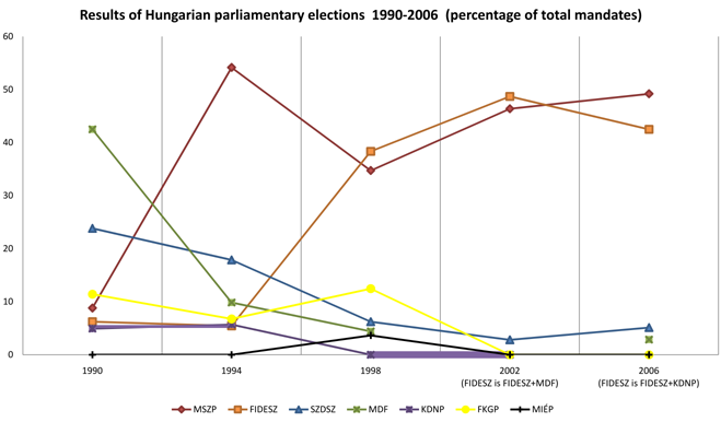 Results of Hungarian parliamentary elections